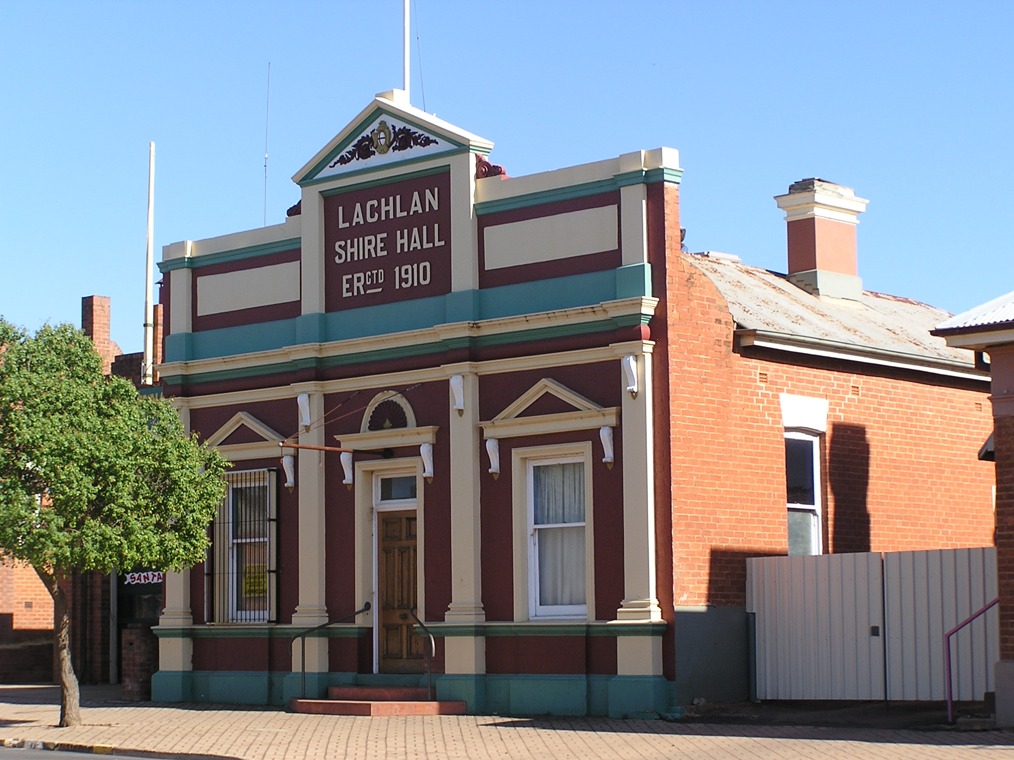 Condobolin, New South Wales, Australia Shire Hall built 1910. Picture taken by AYArktos